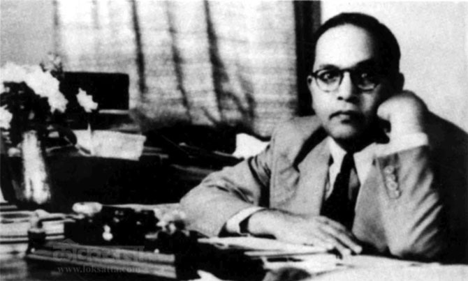 The photograph of Dr. Babasaheb Ambedkar was appointed as Professor of Economics at the Government Law College, Bombay on November 19, 1918.